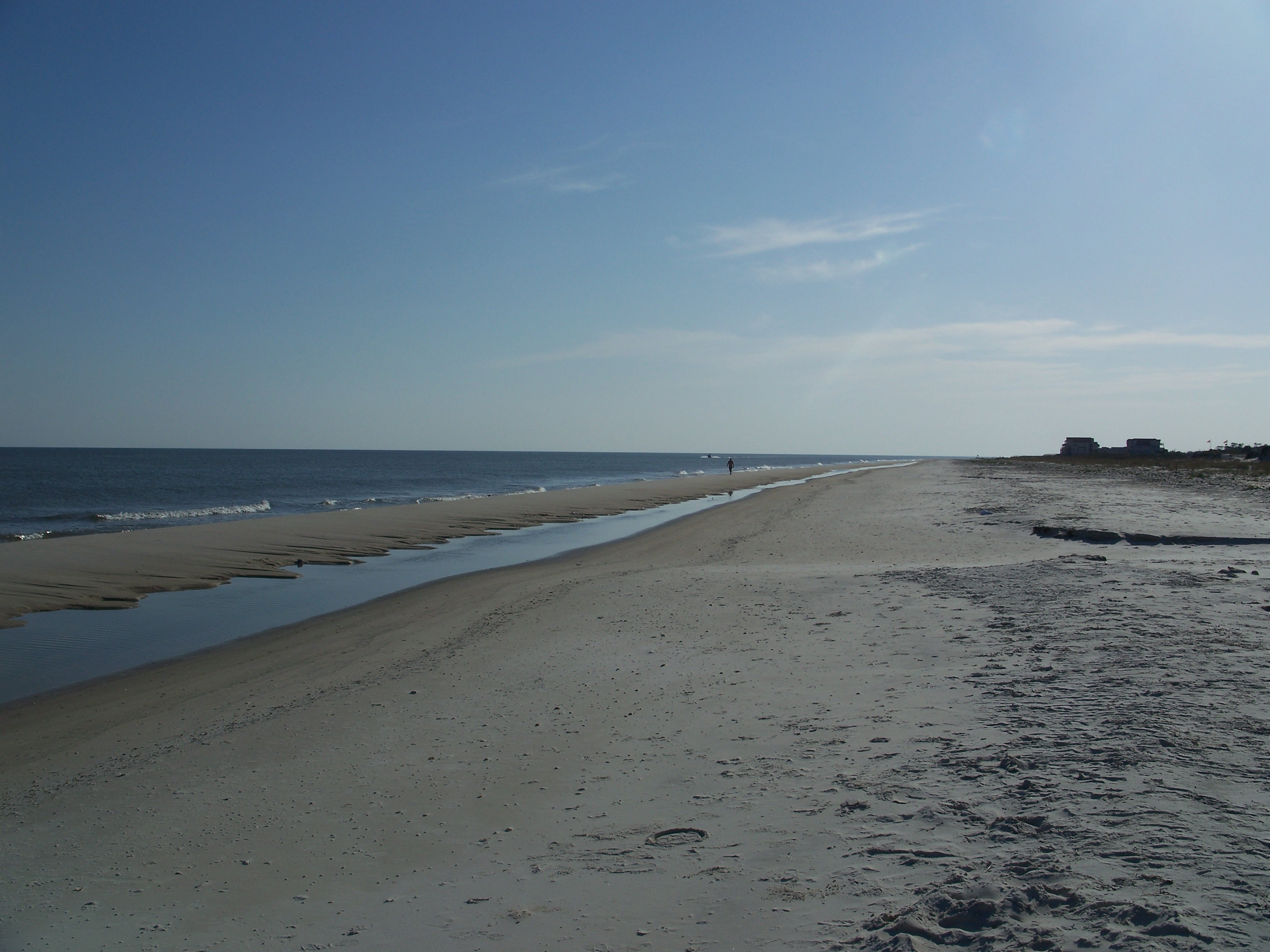 Beach at St. George Island State Park.